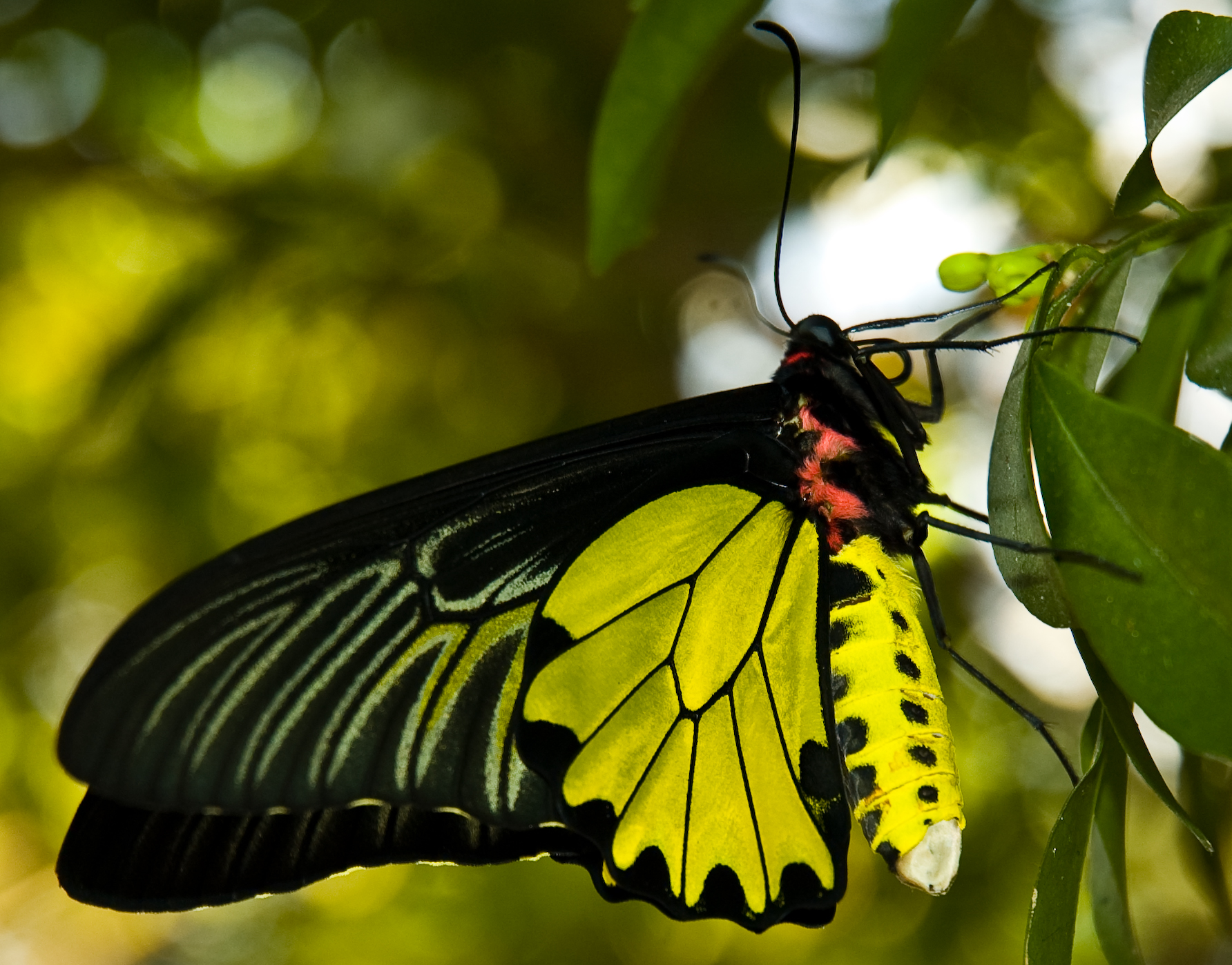 Bangkok Butterfly Park, Golden Birdwing, side view. View large to see the wing details. Here